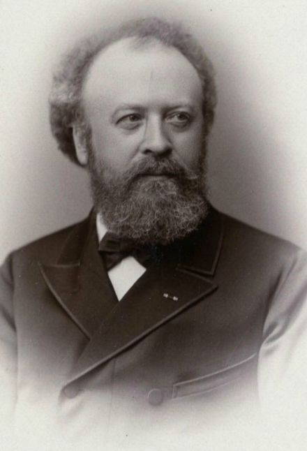 Ferdinand Jacob Nieuwenhuis